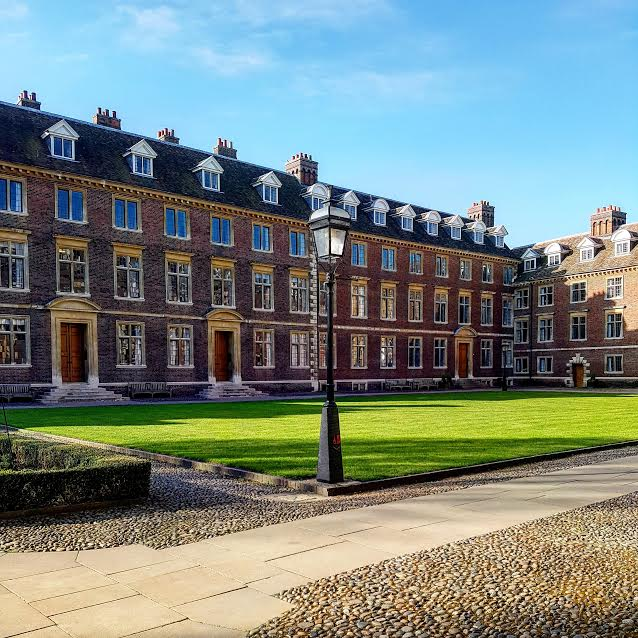 The main court of St Catharine's College, Cambridge. Includes some of the College buildings.